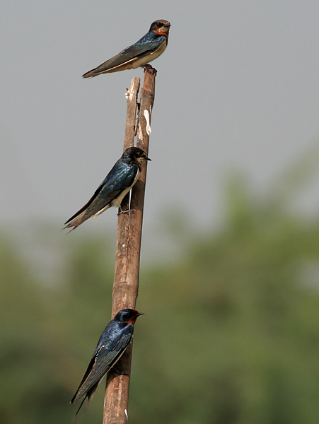 Barn Swallow Hirundo rustica in Kolleru, Andhra Pradesh, India.